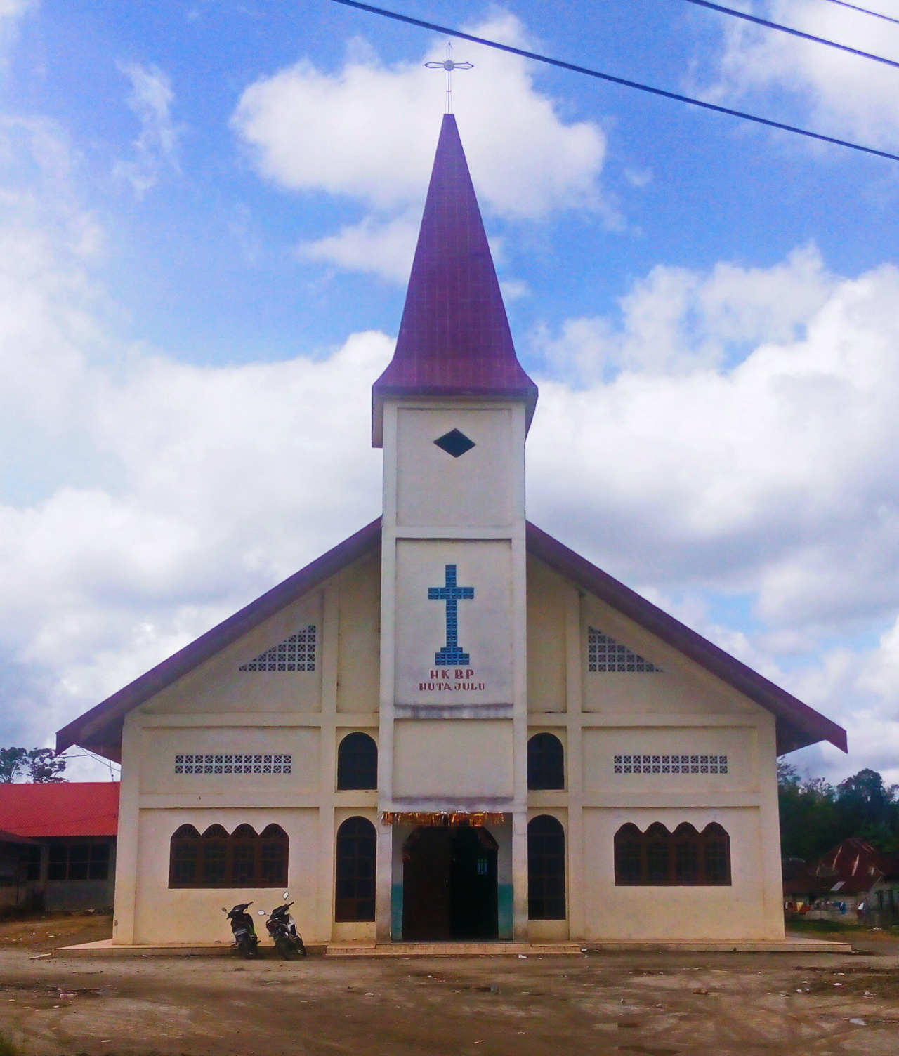 HKBP Hutajulu, Church in Hutajulu, Pollung, Humbang Hasundutan